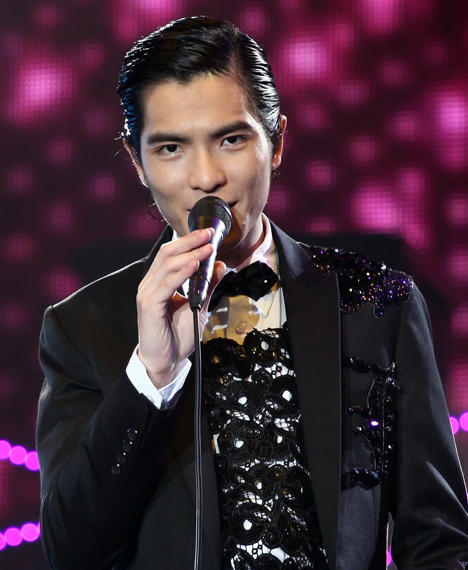 Jam at 2012 Macau concert